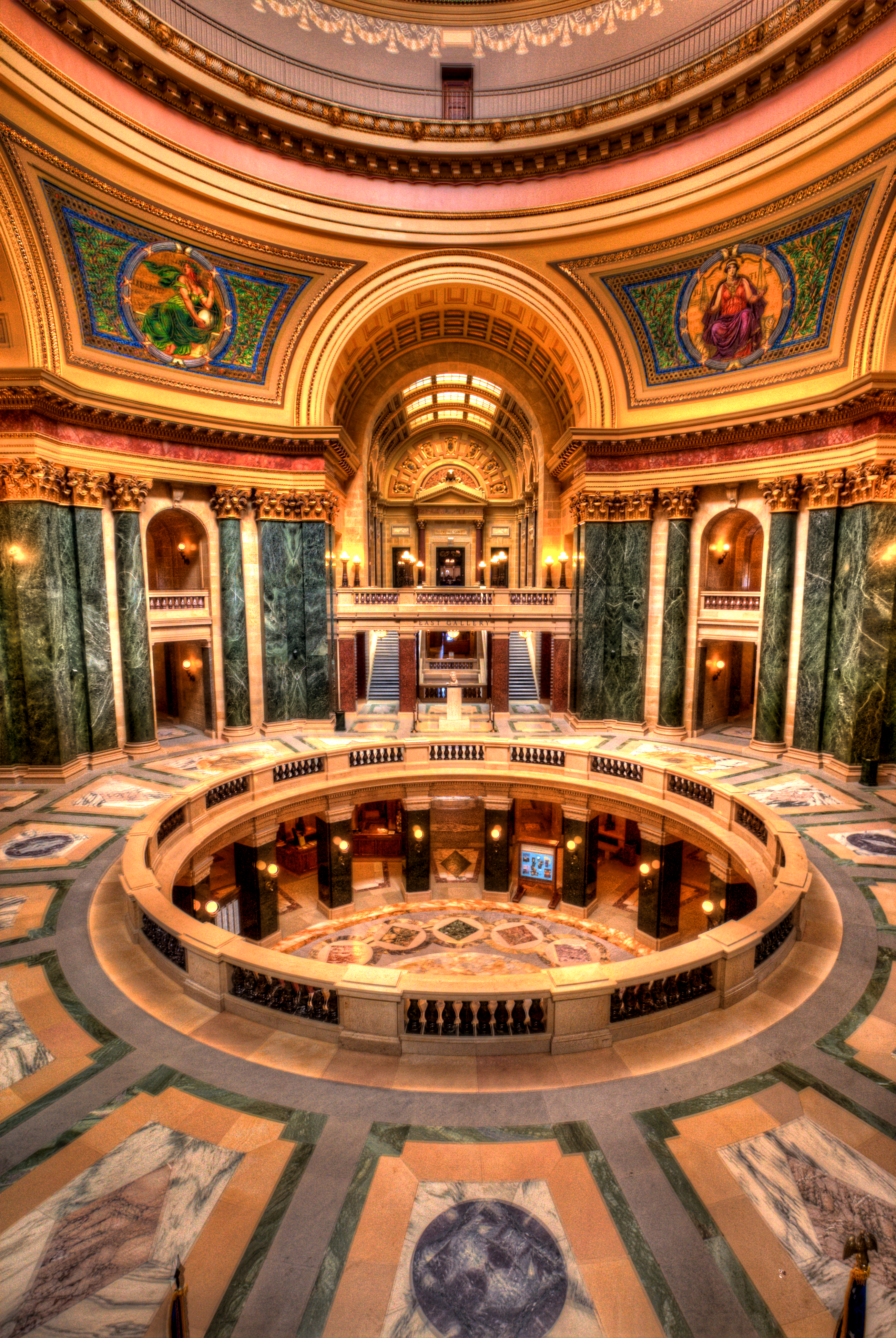 Inside of Wisconsin State Capitol